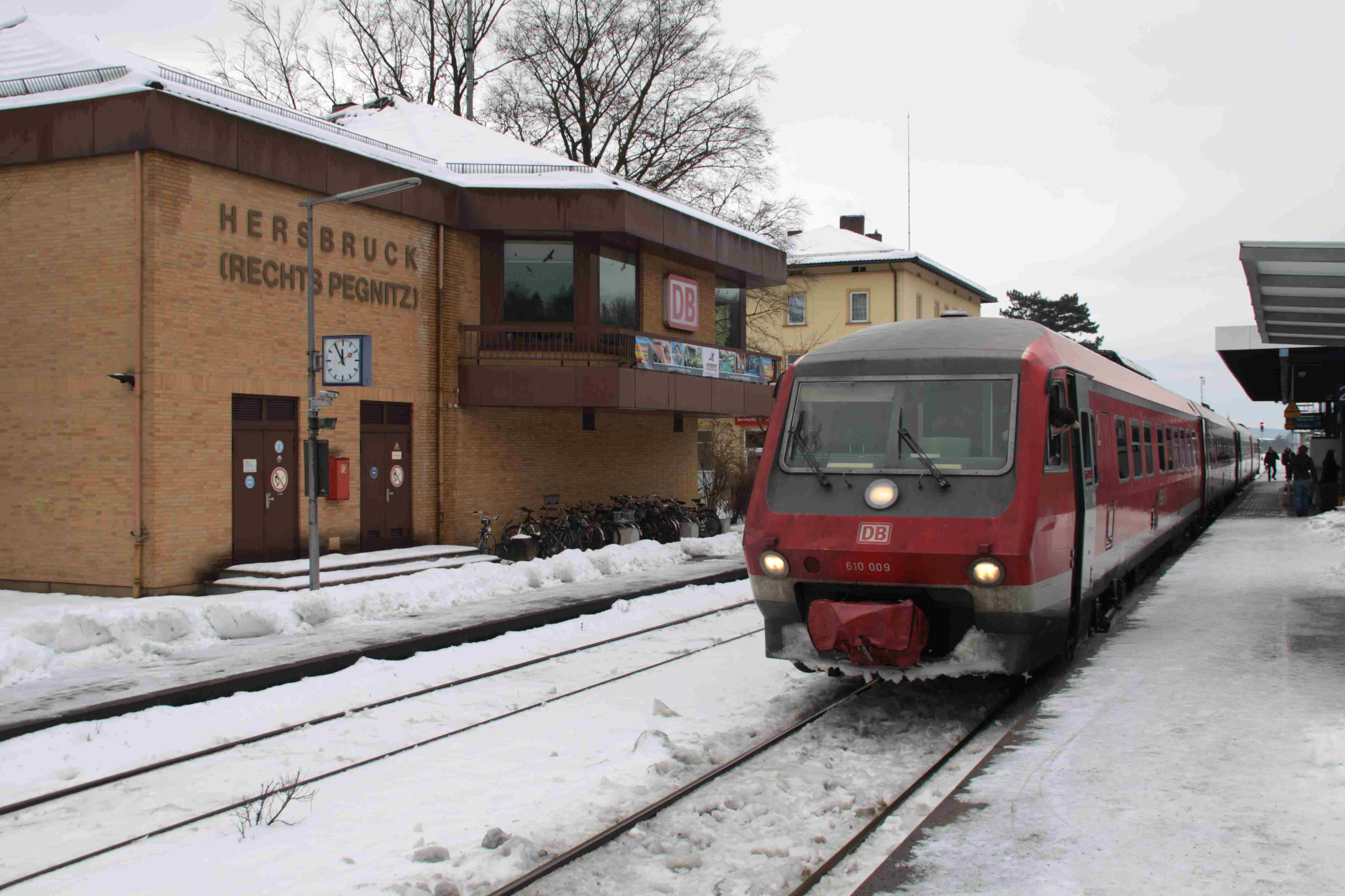 German DMU 610 009 at trainstation Hersbruck (rechts Pegnitz)